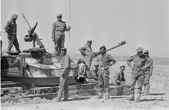 Jordanian soldiers surrounding Syrian Palestine Liberation Army tank during Black September, 17 September 1970